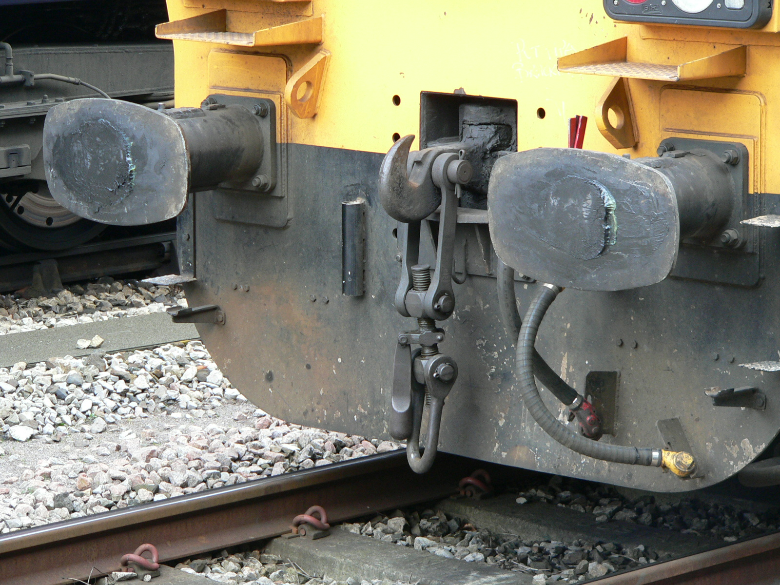 The hook and chain coupling on EWS Class 59 diesel locomotive 59202 Vale of White Horse photographed at Bristol Temple Meads.